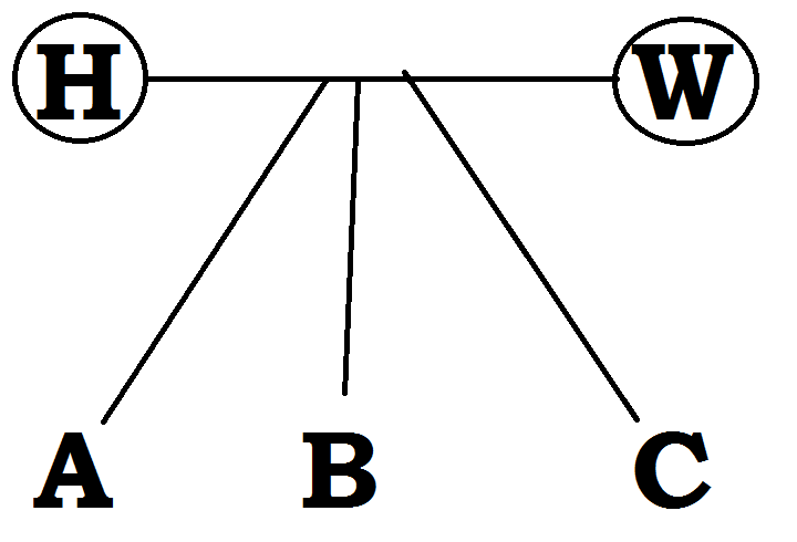 Another diagram illustrating the operation of inheritance per stirpes by representation.